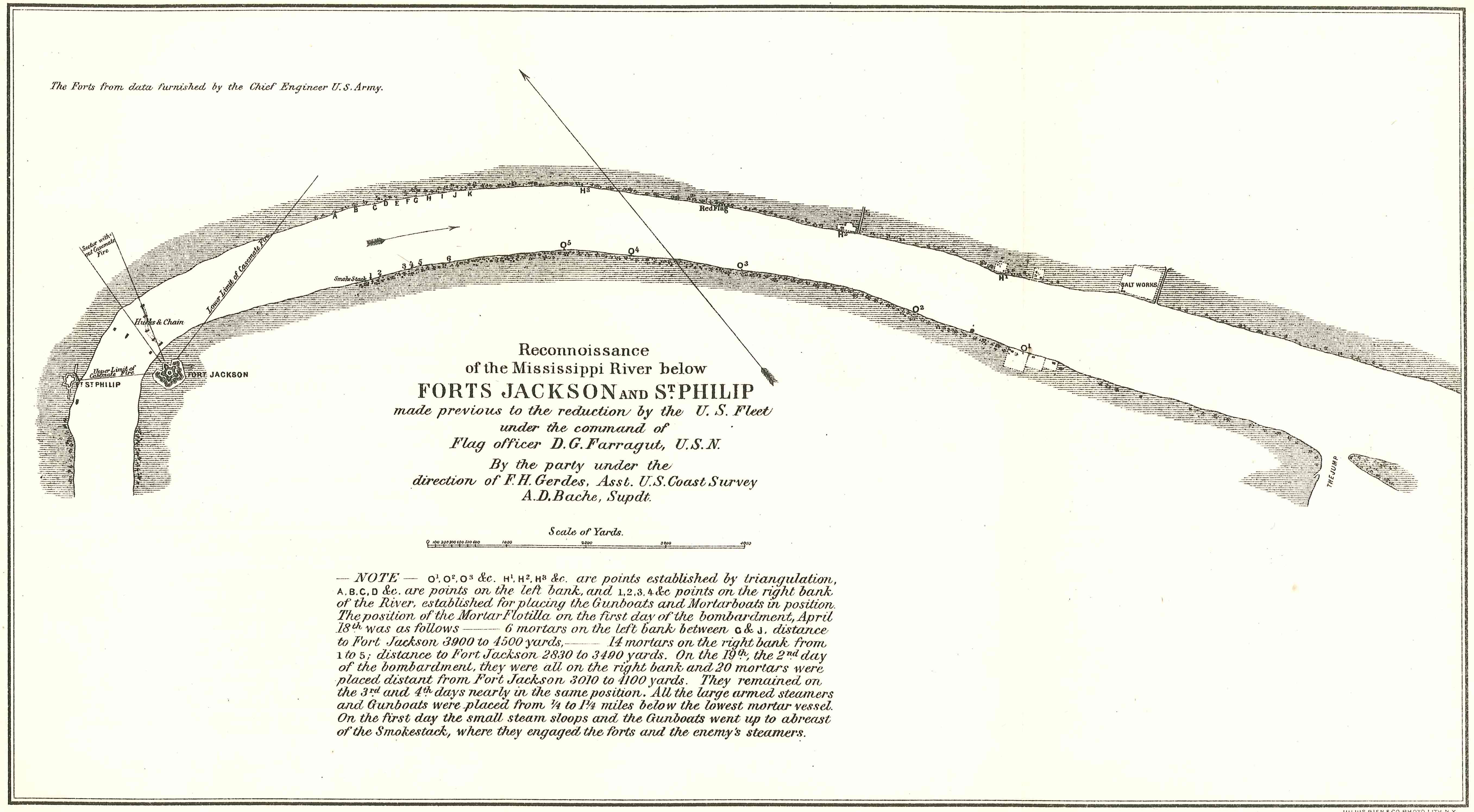 Survey of the Mississippi downstream from Forts Jackson and St. Philip to prepare for the bombardment of the forts by Porter's mortar fleet, April 18, 1862.